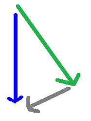 Vectors